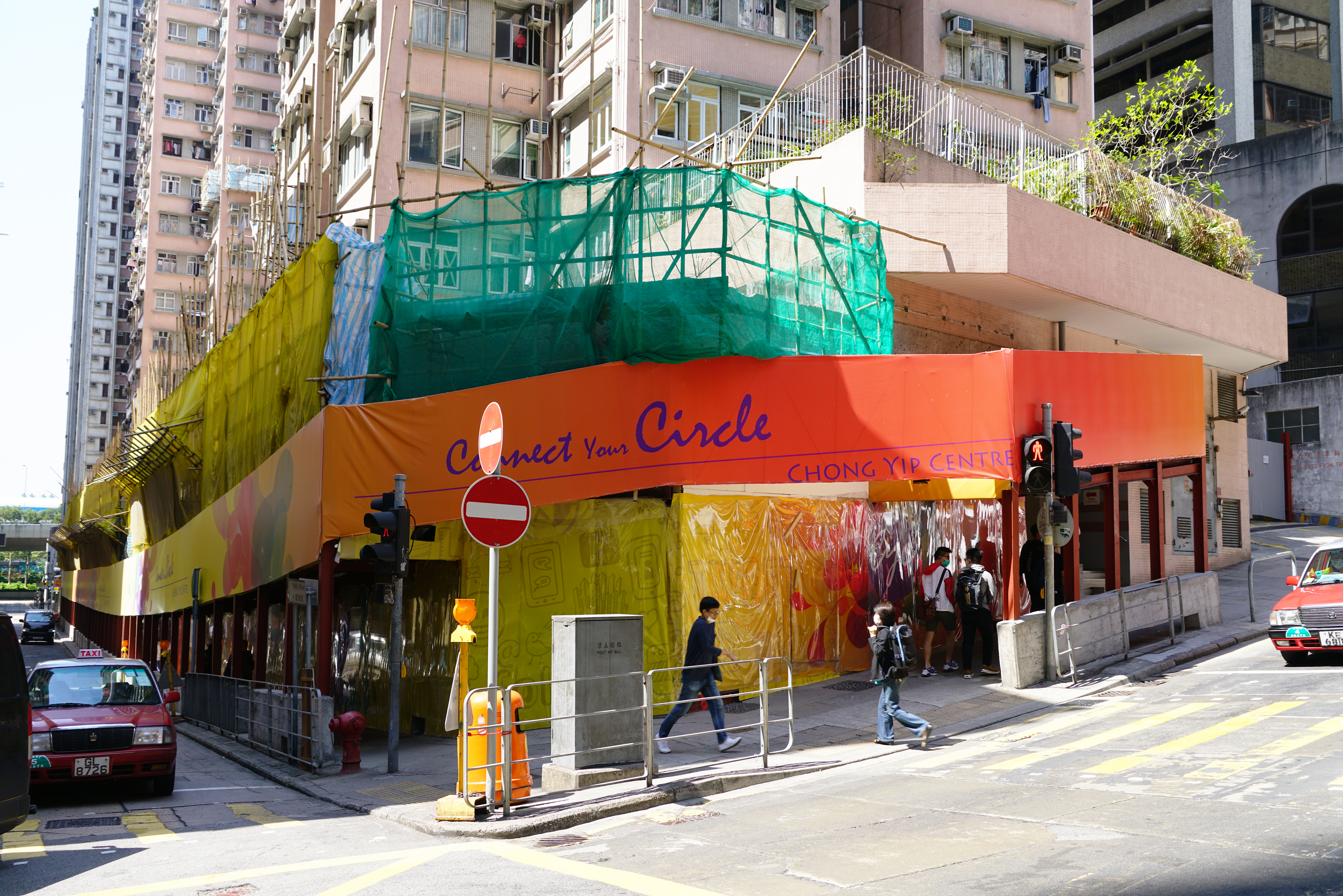 Chong Yip Shopping Centre, Hong Kong.